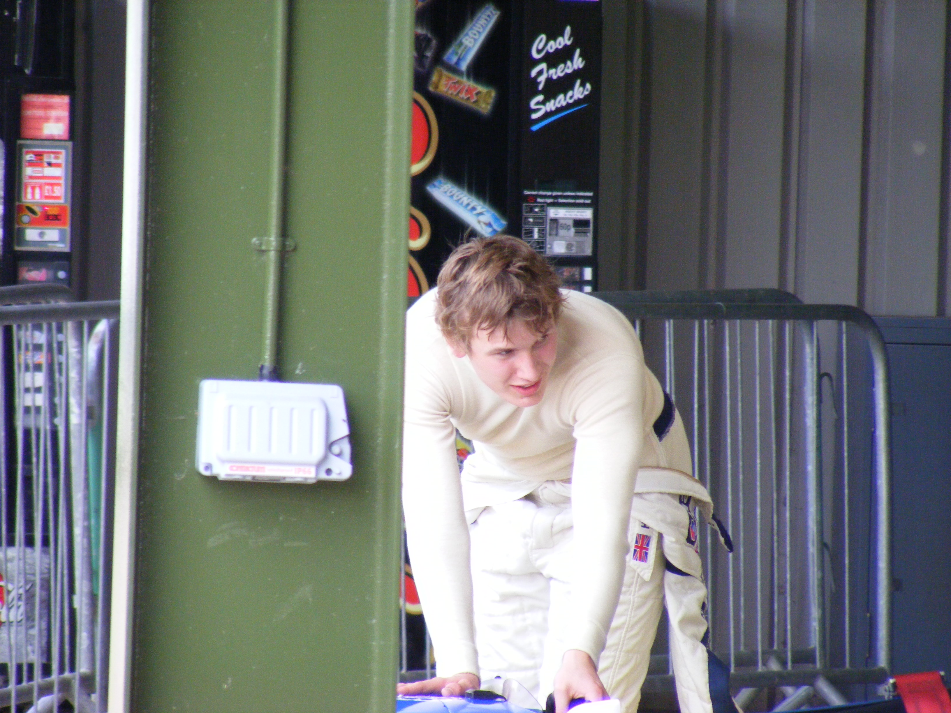 Henry Surtees pushes his Formula Renault car out of Parc Ferme.